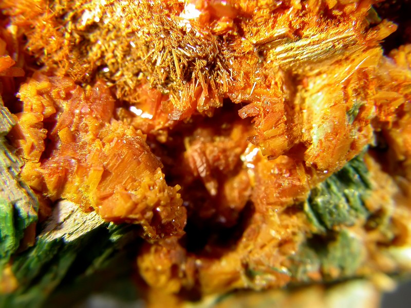 Curite, Kasolite, Metatorbernite Locality: Shinkolobwe Mine (Kasolo Mine), Shinkolobwe, Central area, Katanga Copper Crescent, Katanga (Shaba), Democratic Republic of Congo (Zaïre) (Locality at ) Size: 11 x 6 x 4 cm. An exceptional specimen of orange Curite and Kasolite with green Metatorbernite. The curite forms needles which are filling the spaces between and sits on the huge Metatorbernite crystals. It is associated with Kasolite in blocky crystals. The matrix consists of massive Metatorbernite. Shinkolobwe is the type locality for Curite and Kasolite both.